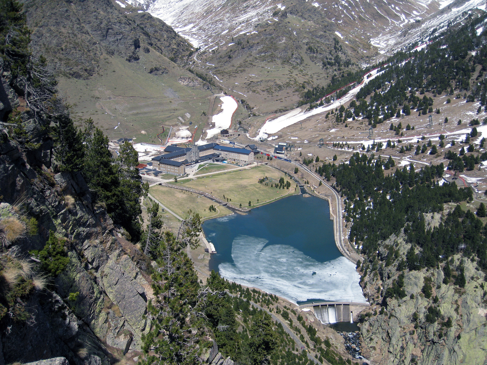 The Vall de Núria (“Valley of Núria”) with the mountain resort, the sanctuary and the reservoir in the catalan Pyrenees, Spain.